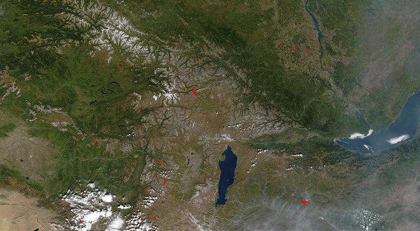 Satellite image. Lake Khövsgöl (bottom center, Mongolia), Lake Baikal, and the Sayan Mountains (Russia)